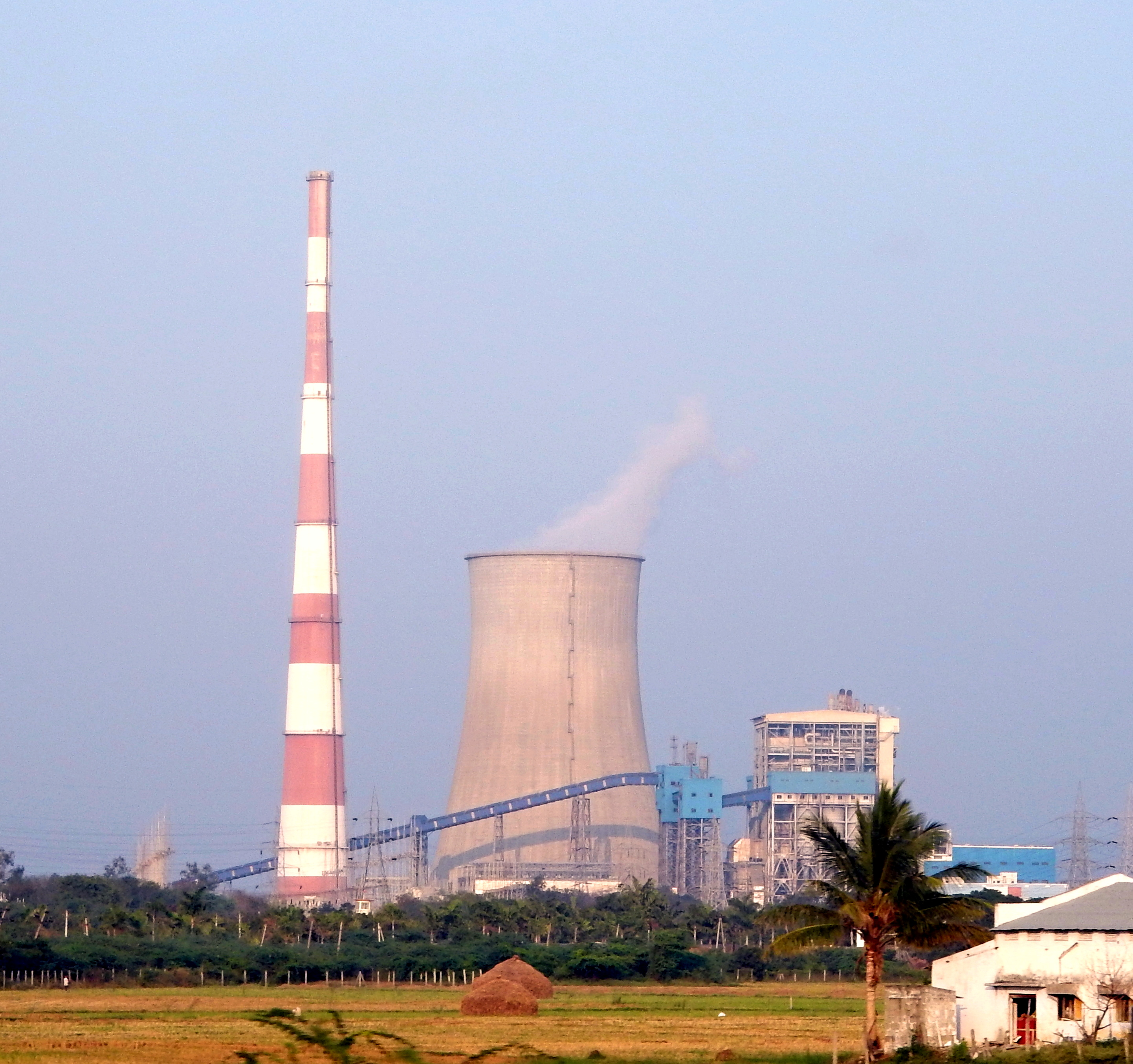 Dr Narla Tata Rao Thermal Power Station in January 2015. It is a large thermal power station near the Indian city of Vijayawada